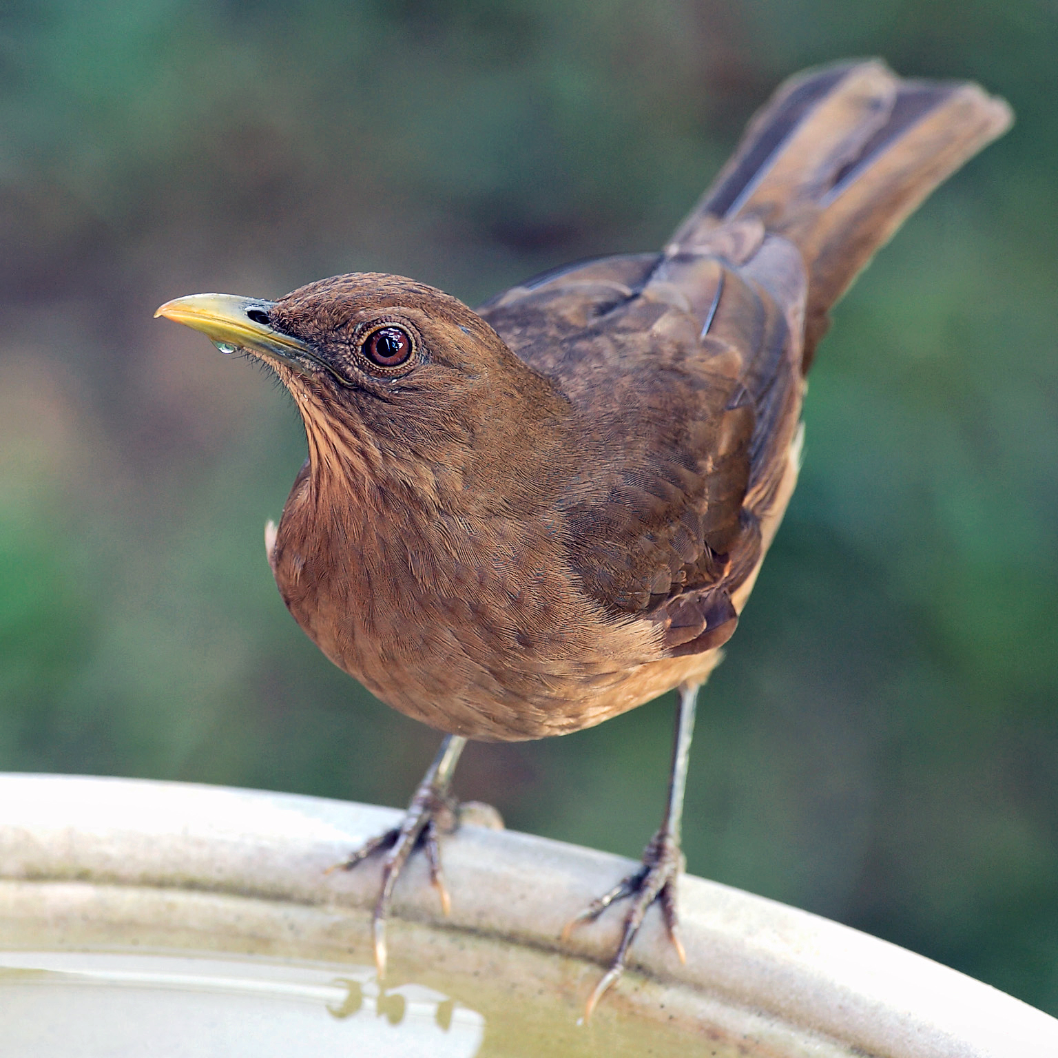 Description: Clay-colored Robin (Turdus-grayi) Panama City, Panama, 2005 December Photograph: Mdf first upload in en wikipedia on 19:50, 13 December 2005 by Mdf Licence